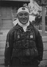 Ensign Kiyoshi Ogawa in flightgear, wearing Kamikaze hachimaki.